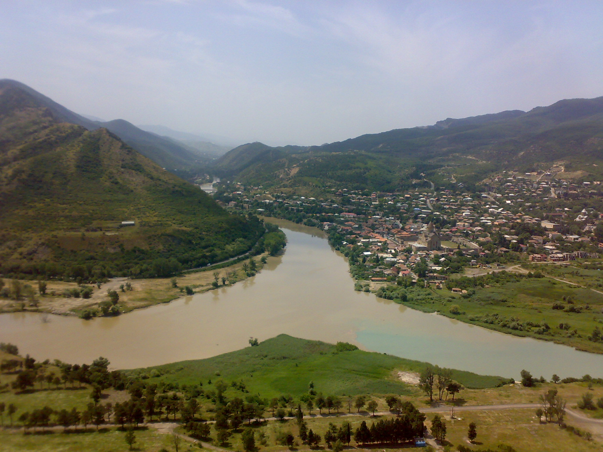 Mtkvari-Aragvi confuence at Mtskheta, Georgia.